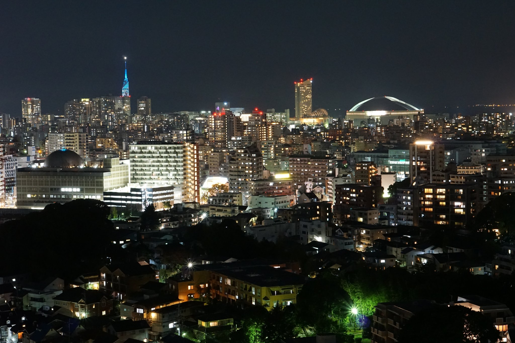 Fukuoka night view